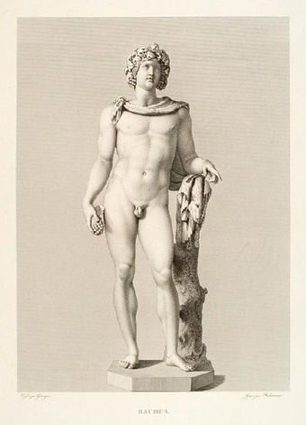 Theodore Richomme (1785-1849). "Bachus"